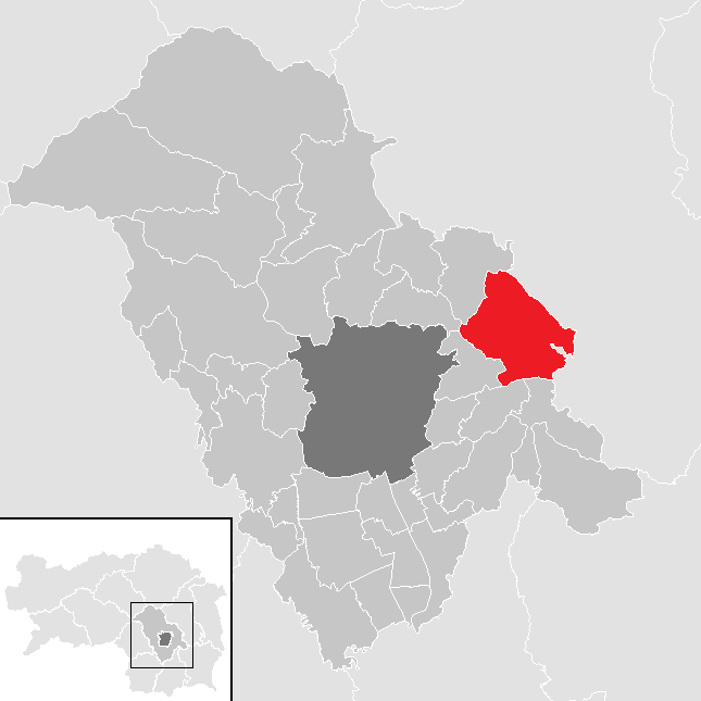 District Graz-Umgebung, Styria